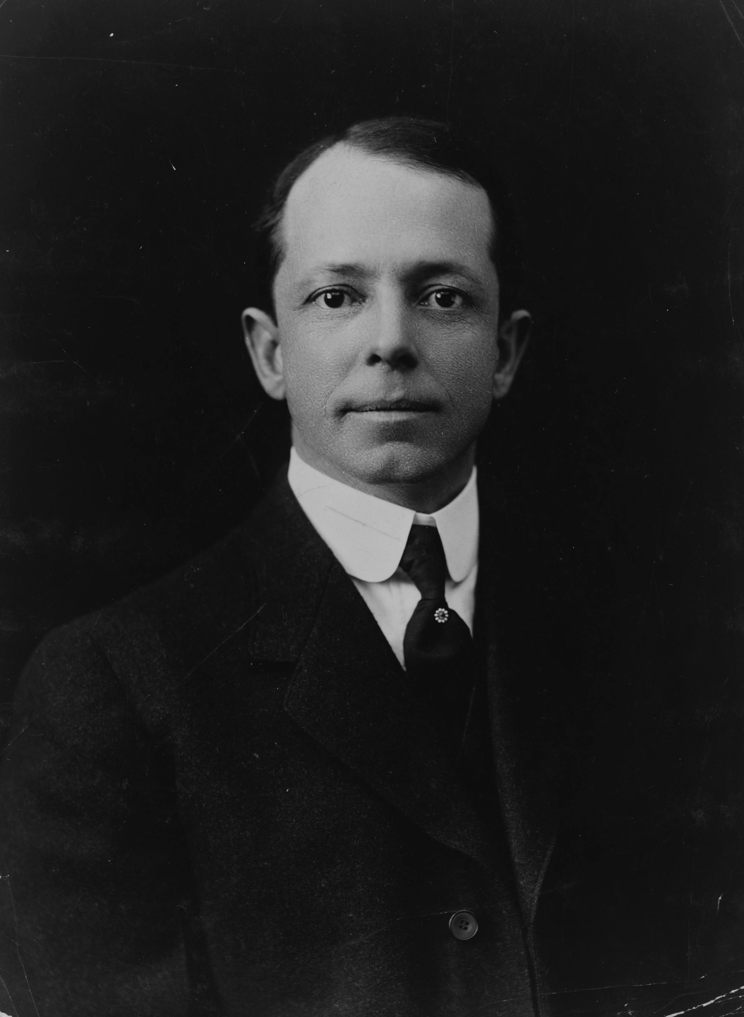 Henry S. Graves (1871–1951), American conservationist